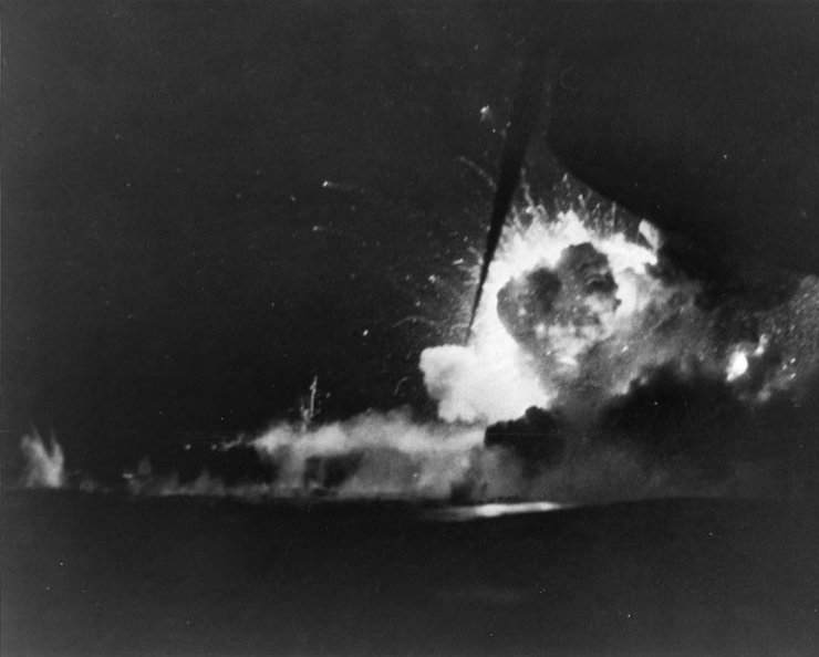 View of a large explosion on board the U.S. Navy escort carrier USS Bismarck Sea (CVE-95), after she was hit by a Kamikaze during the night of 21-22 February 1945, while she was taking part in the Iwo Jima operation. She sank as a result of her damage with the loss of 318 crewmen.